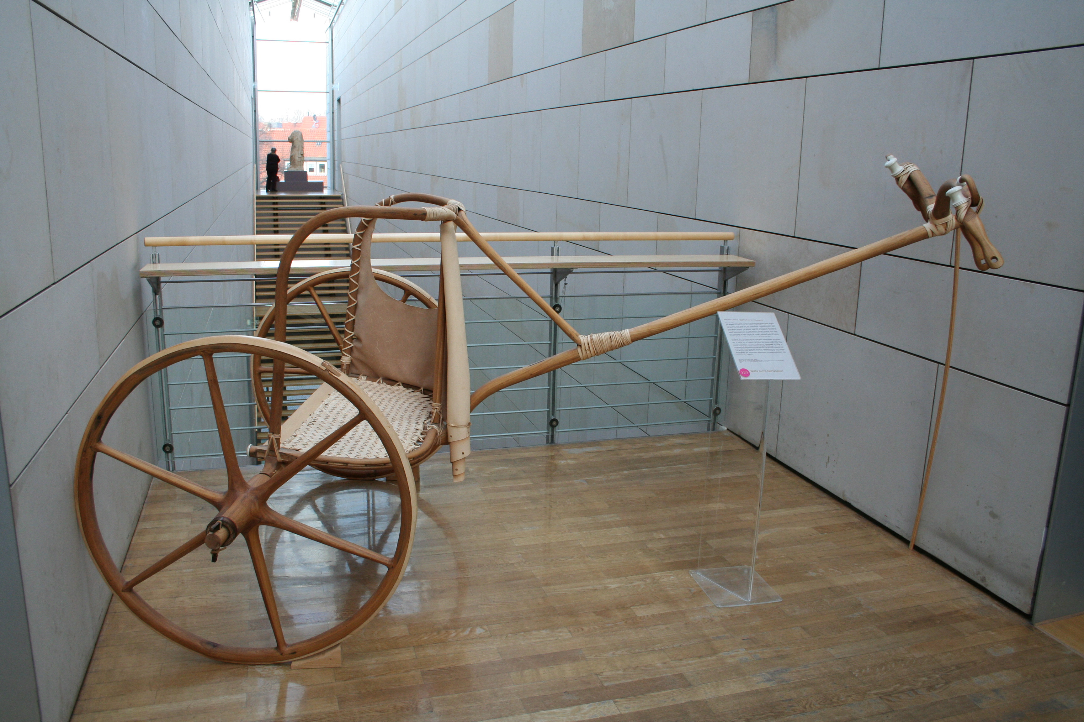 Replica of an ancient egyptian chariot; Roemer- und Pelizaeus-Museum, Hildesheim